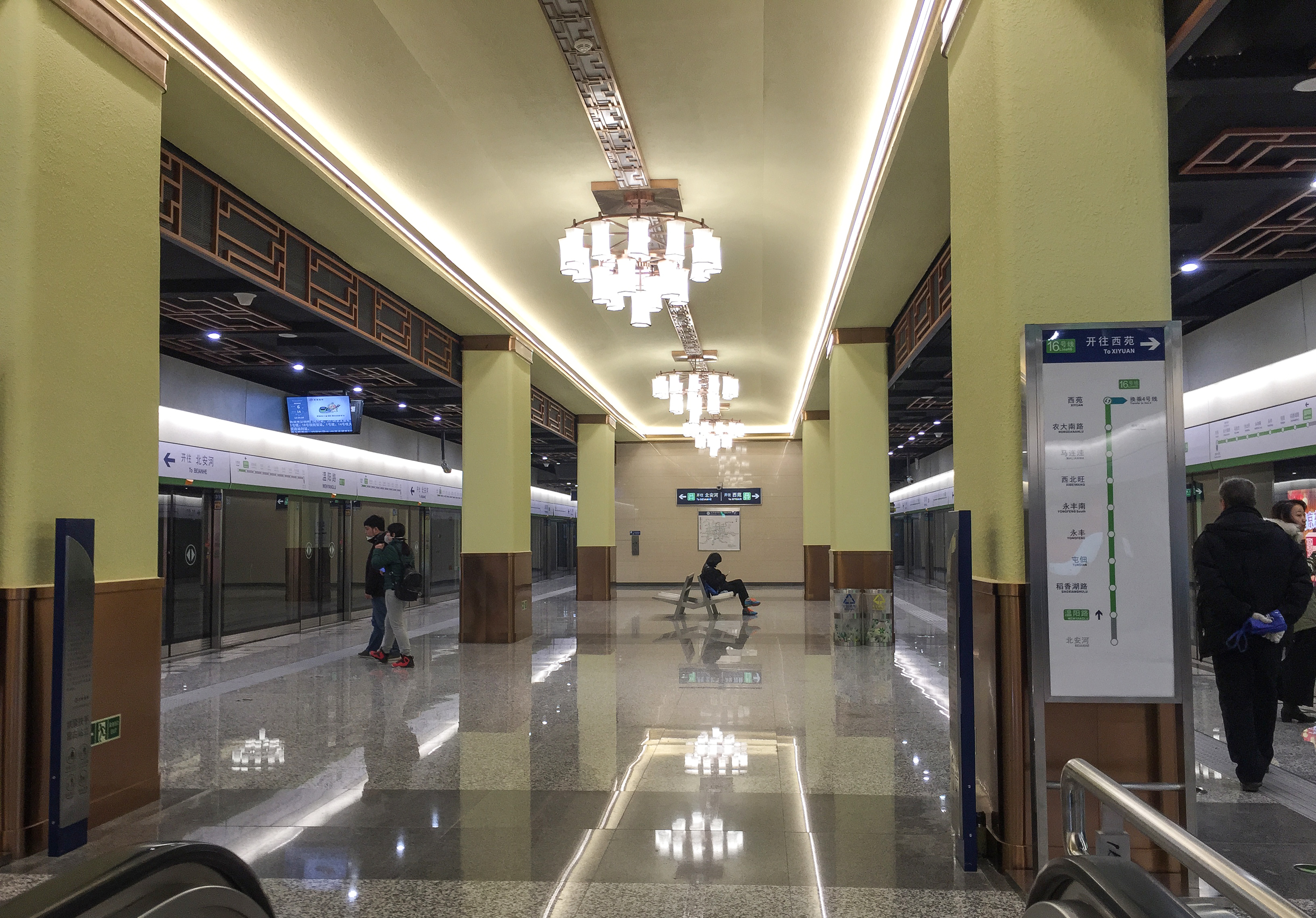 According to Beijing MTR, this station has handled 2000 passengers as of 10:00 AM.